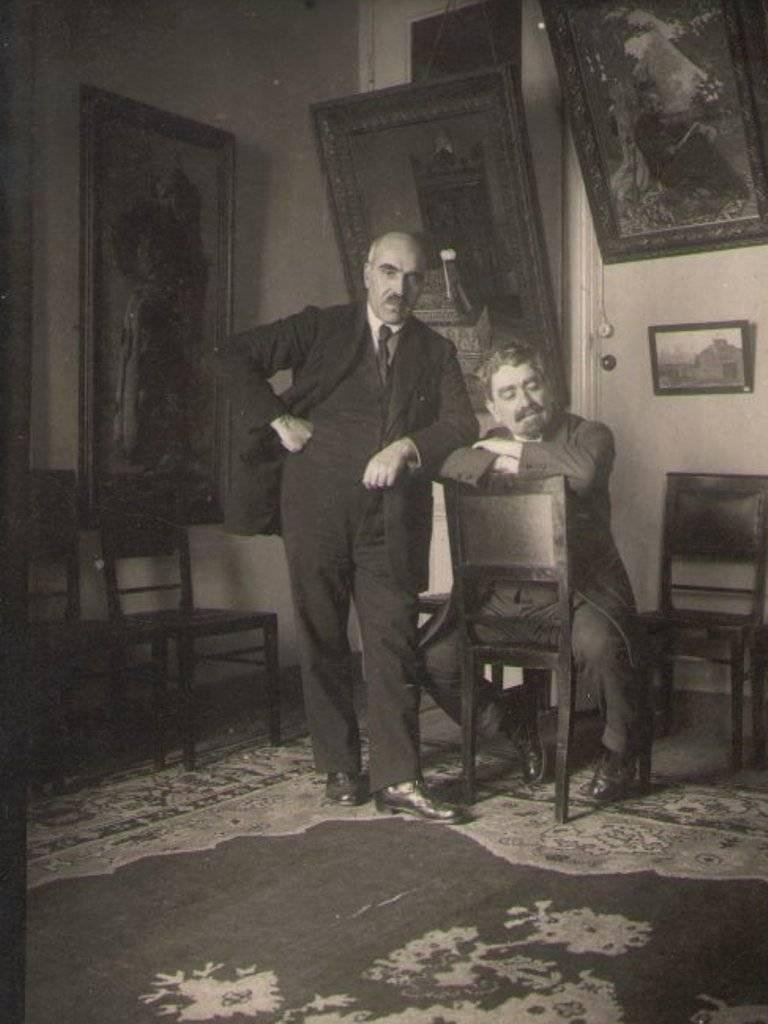 Panos Terlemezyan, Levon Qyurqchyan 1920